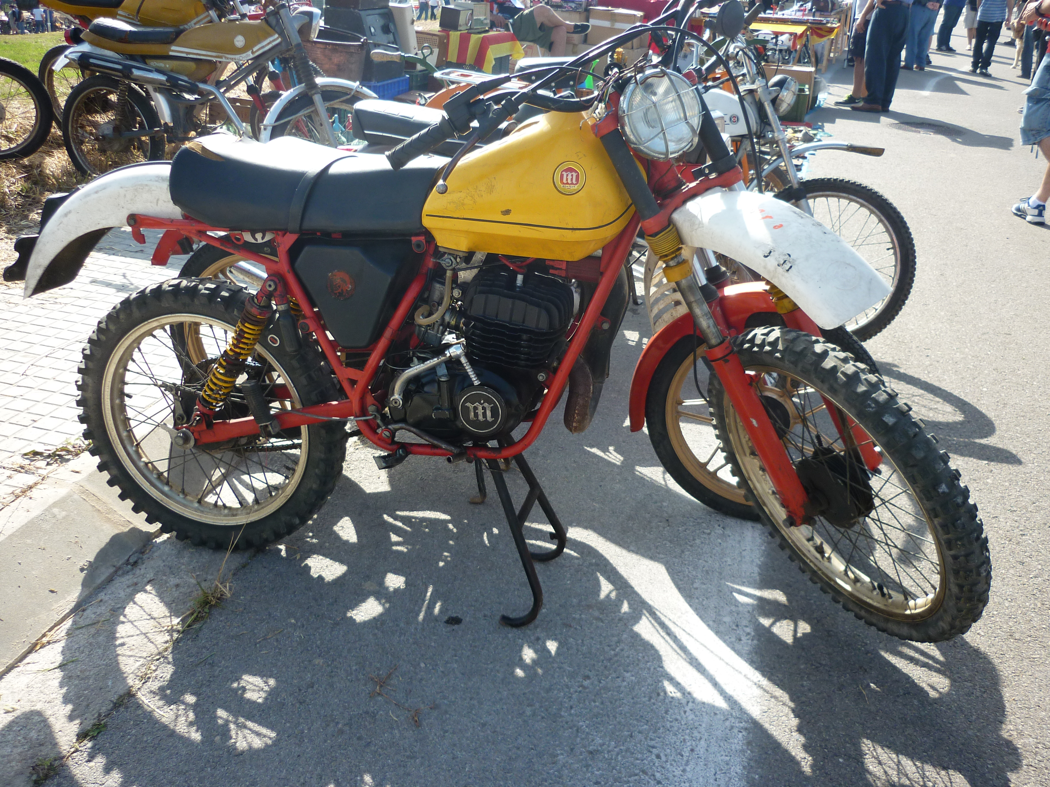 Montesa Enduro 75 H6 "79", 1982 (the filename is wrong)